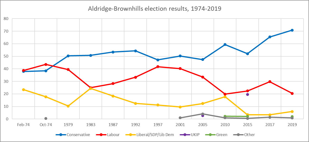 Graph showing results of elections for Aldridge-Brownhills constituency.